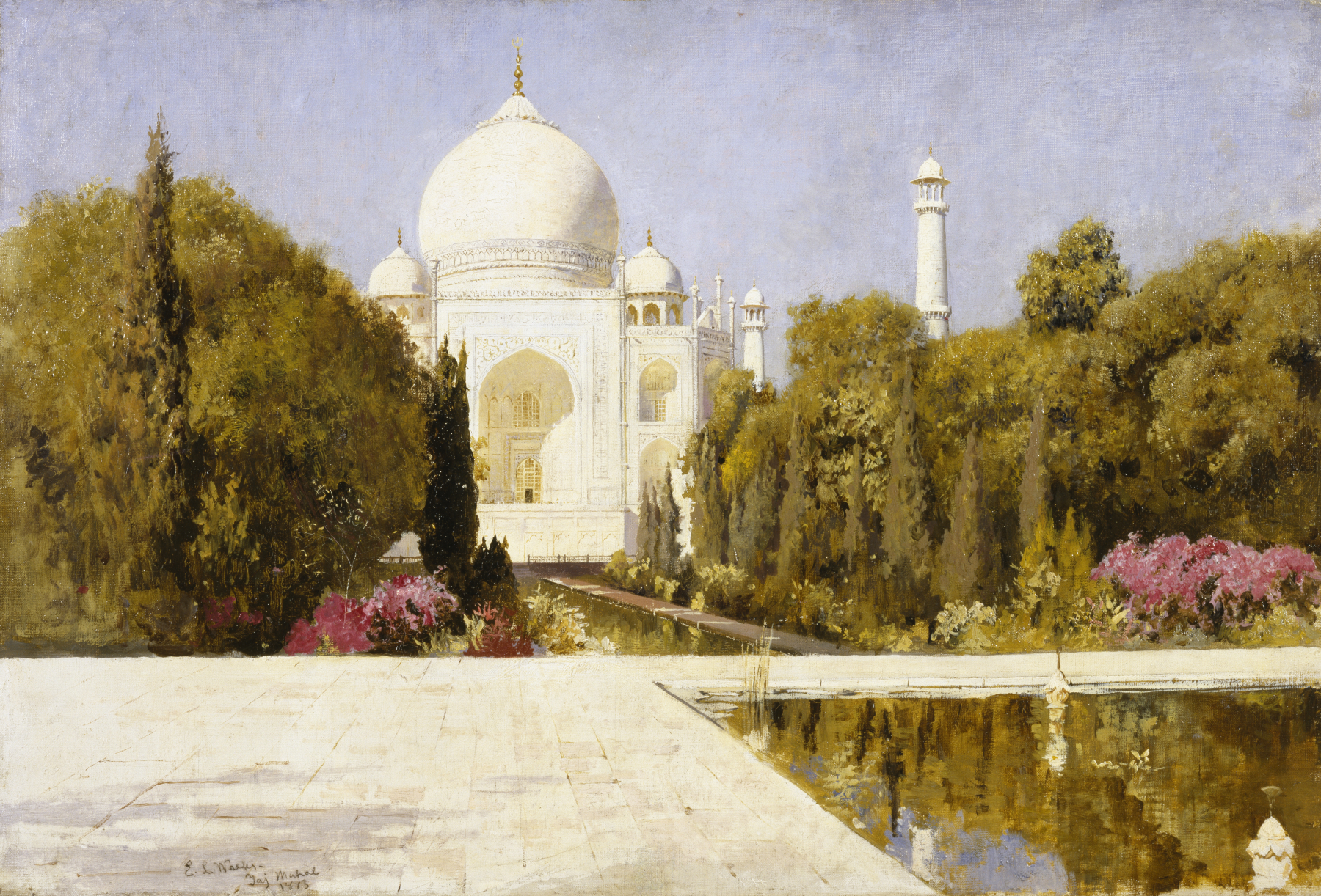 Weeks was the most avid traveler among the American orientalists. He did not limit his journeys to the Near East, but also visited India in 1882 and again from 1892 through 1894. After returning to his studio in France, he specialized in Indian subjects, which were based on photographs and drawings made during his travels. In this painting, he depicts the famous tomb erected in 1630 by Shah Jahan for his wife.